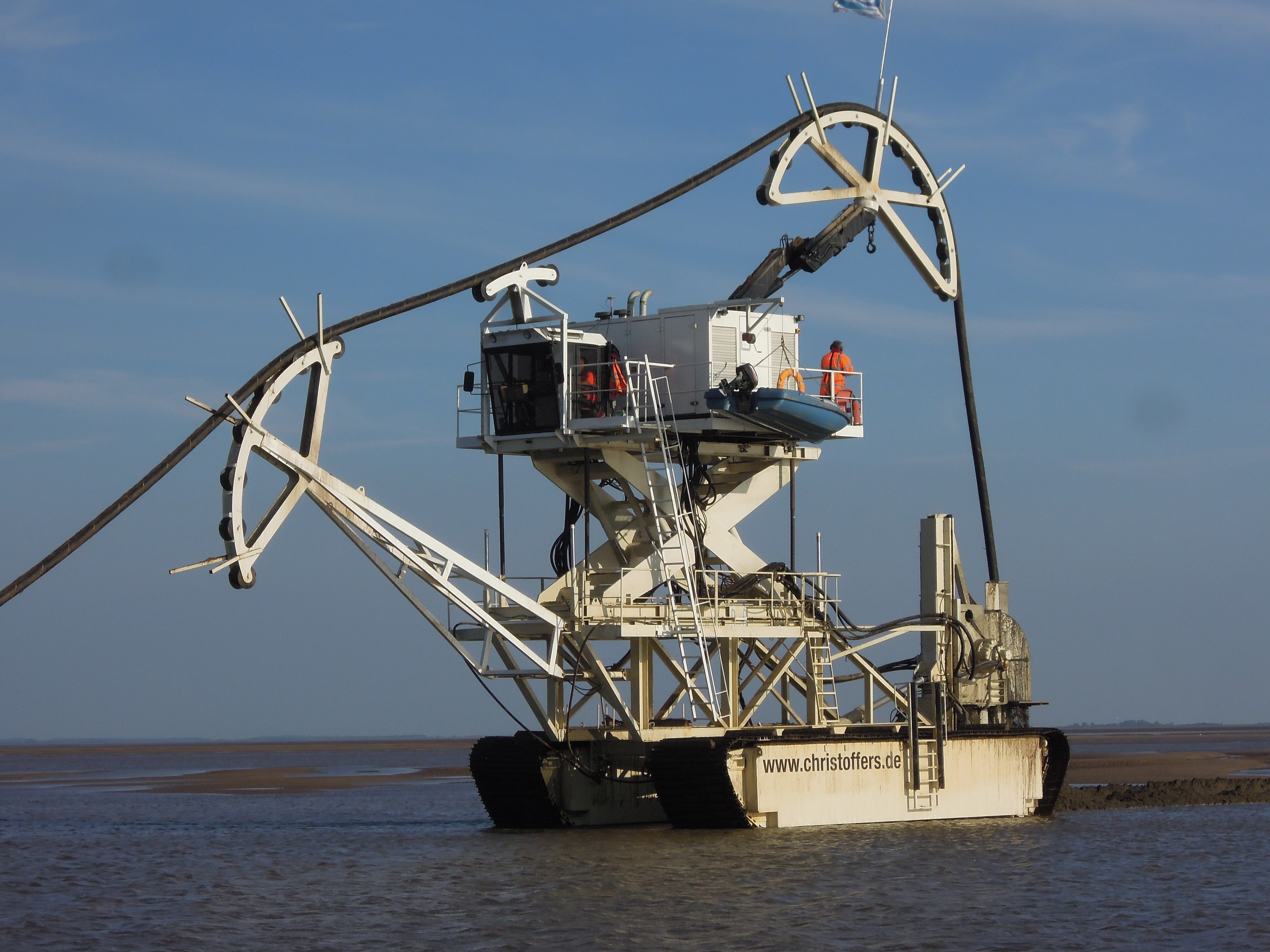 Nessie II Christoffers submarine cable trencher